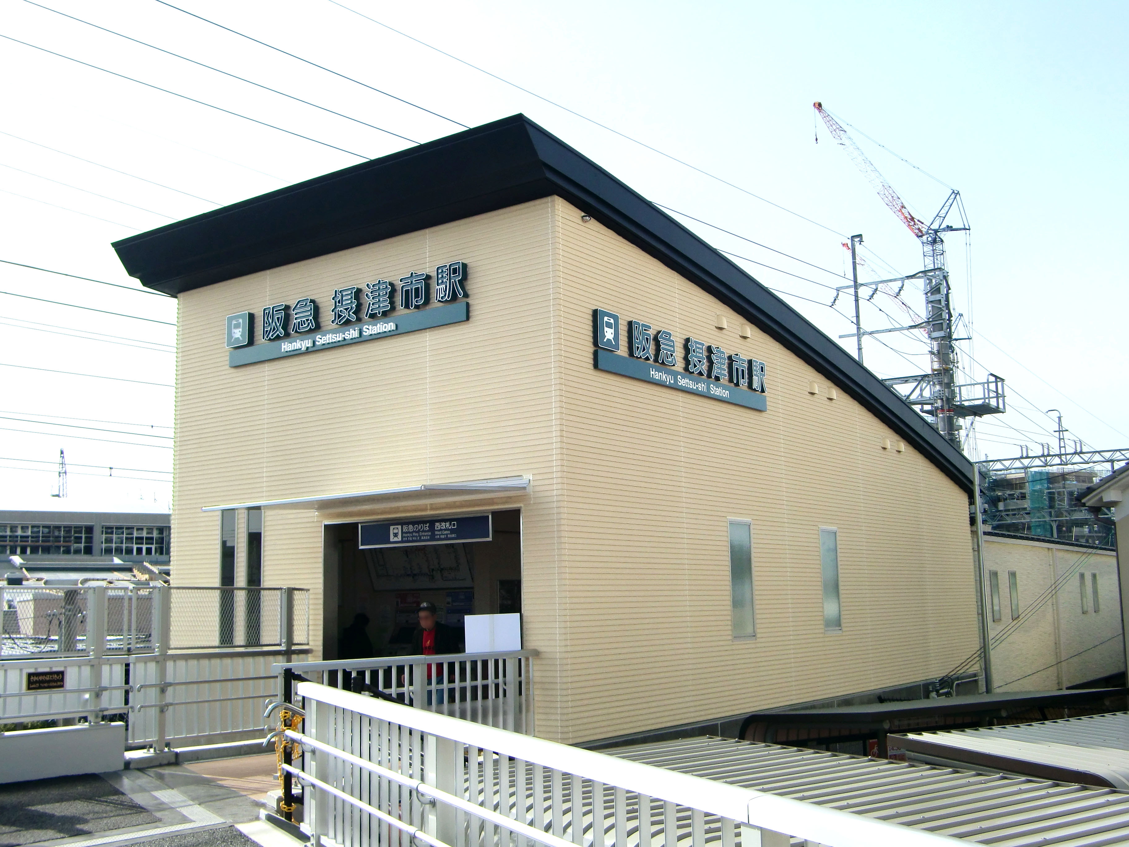 Hankyu Railway Settsu-shi Station,Settsu-City Osaka Japan.